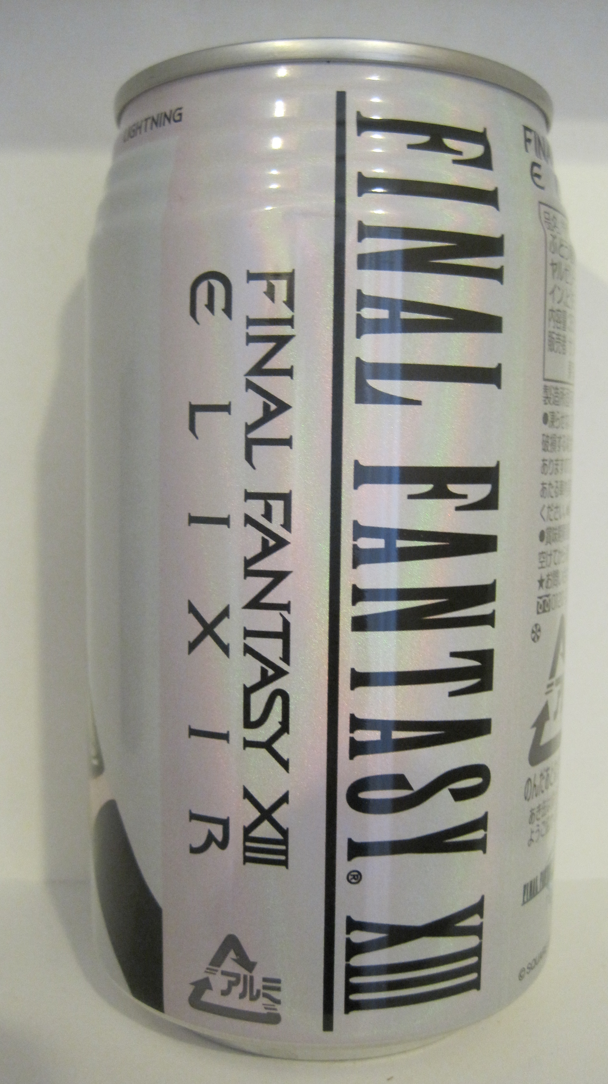 Suntory Final Fantasy XIII Elixir can featuring the game cover version of Lightning (not shown). This can was in the first series of 8 out of a total of 16 cans produced featuring different images from the game, including several of Lightning. Author's collection.